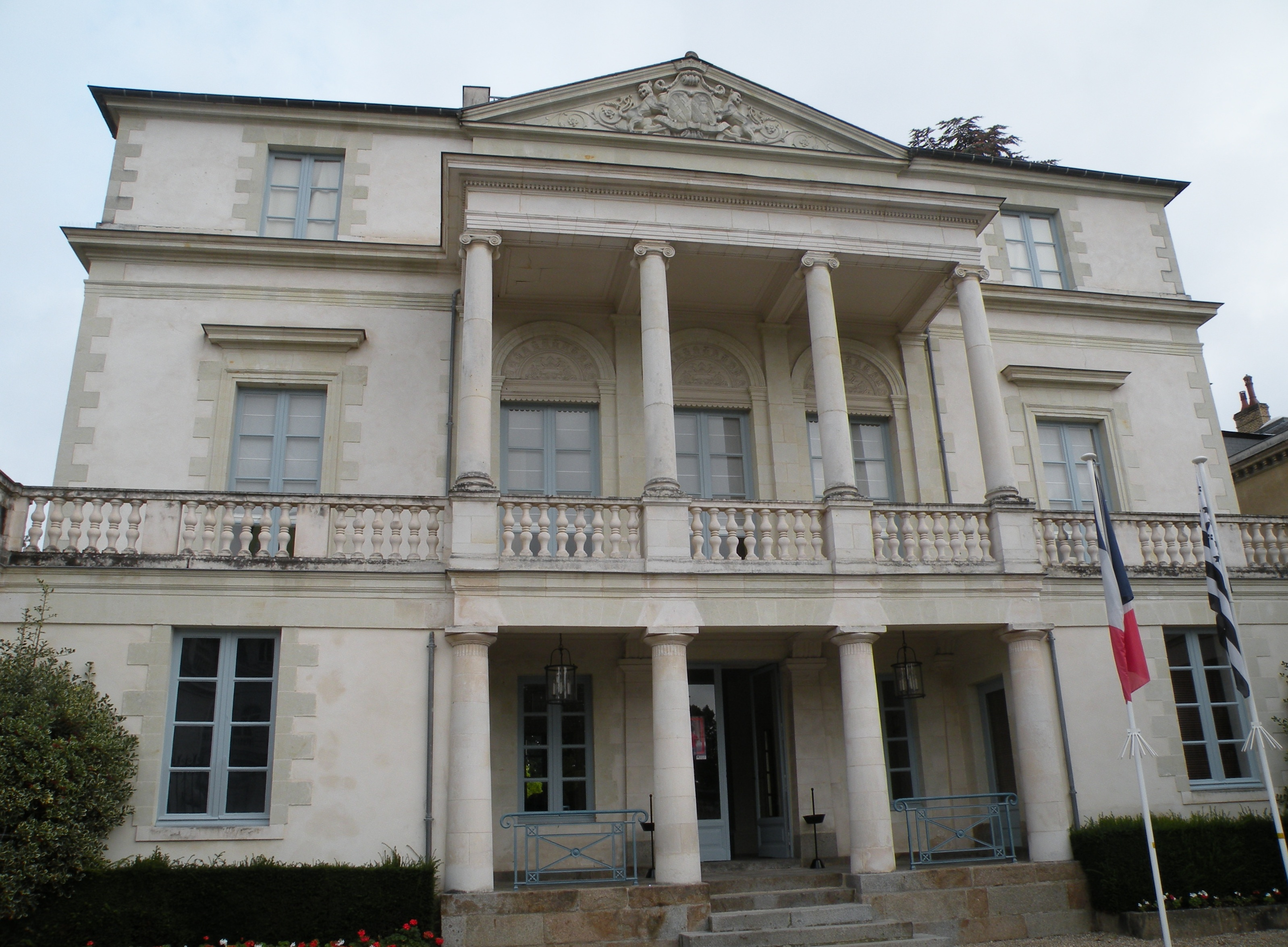 Façade of the Hôtel de Courcy, seat of Bretagne Regional Council.